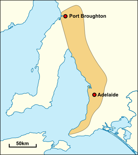 Approximate extent of the traditional territory of the Kaurna people. Based on the description given by Robert Amery in Warrabarna Kaurna!: reclaiming an Australian language.